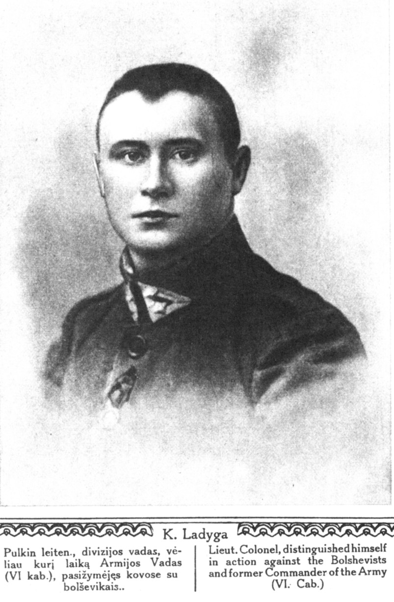 Kazys Ladiga, Lithuanian generalLietuvių: Kazys Ladiga, Lietuvos generolas